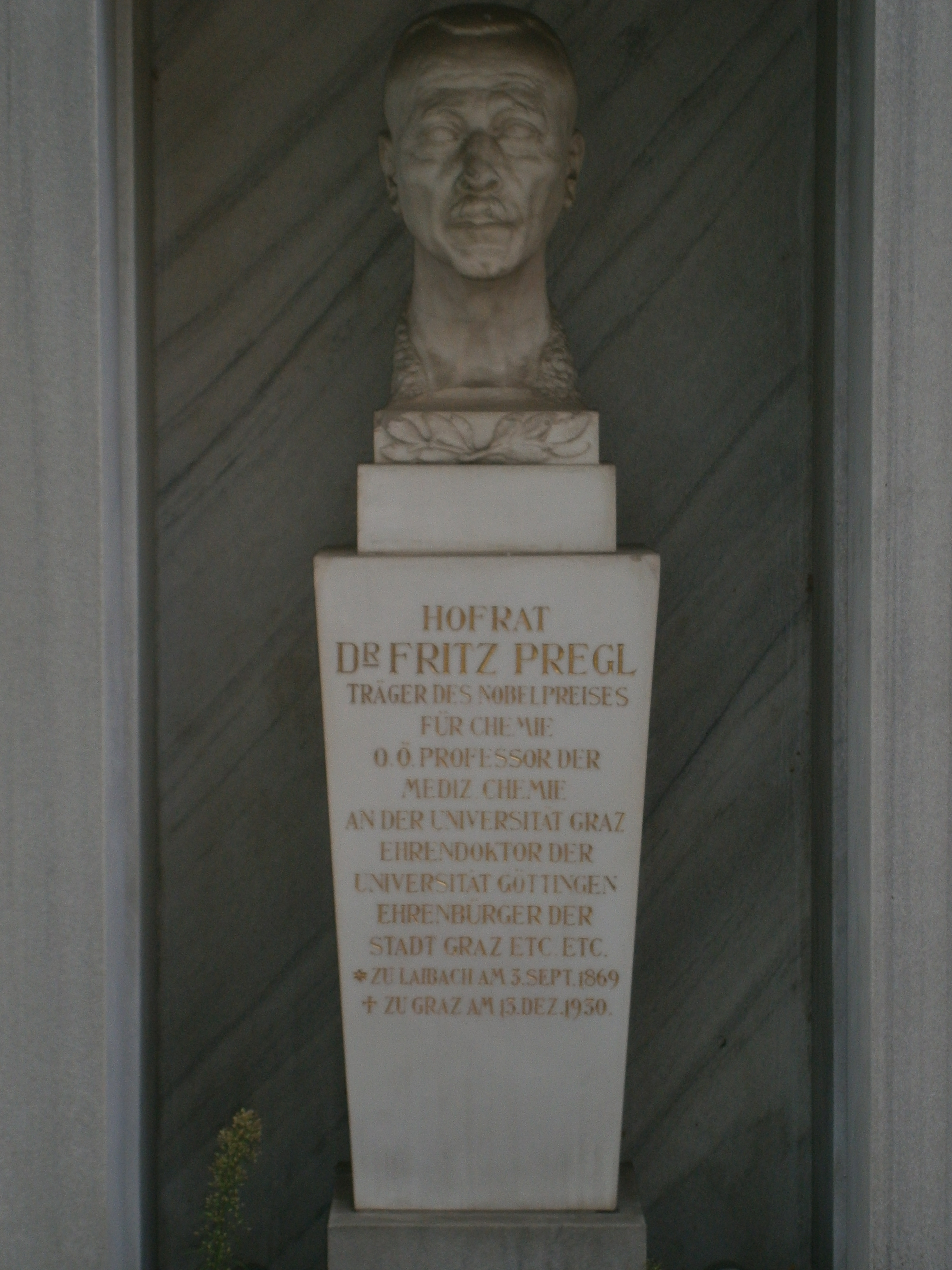 Inscription on the grave of Frederik Pregel at the Graz Central cemetary